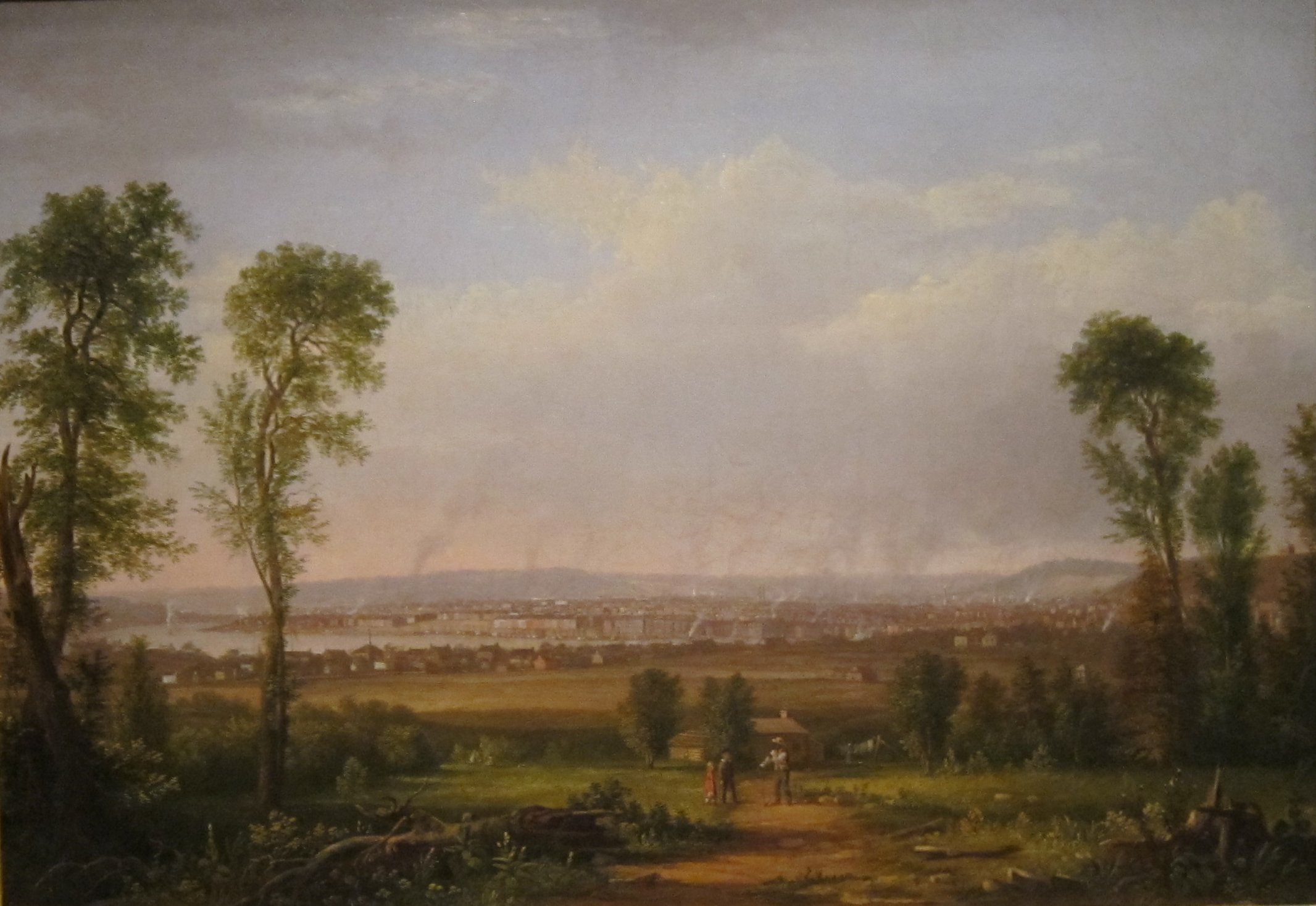 Cincinnati from Covington, Kentucky